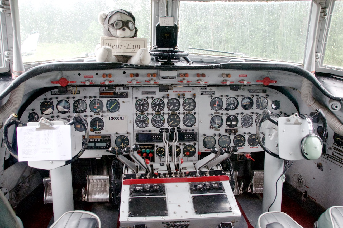 Cockpit of a Douglas C-54E Skymaster. This particular plane, called the "Spirit of Freedom", was built in 1945 with serial number 44-9144. In 1992 the Berlin Airlift Historical Foundation acquired the plane and started restoration. The plane, flying with registration number N500EJ, and the Foundation educate people about the Berlin Airlift.